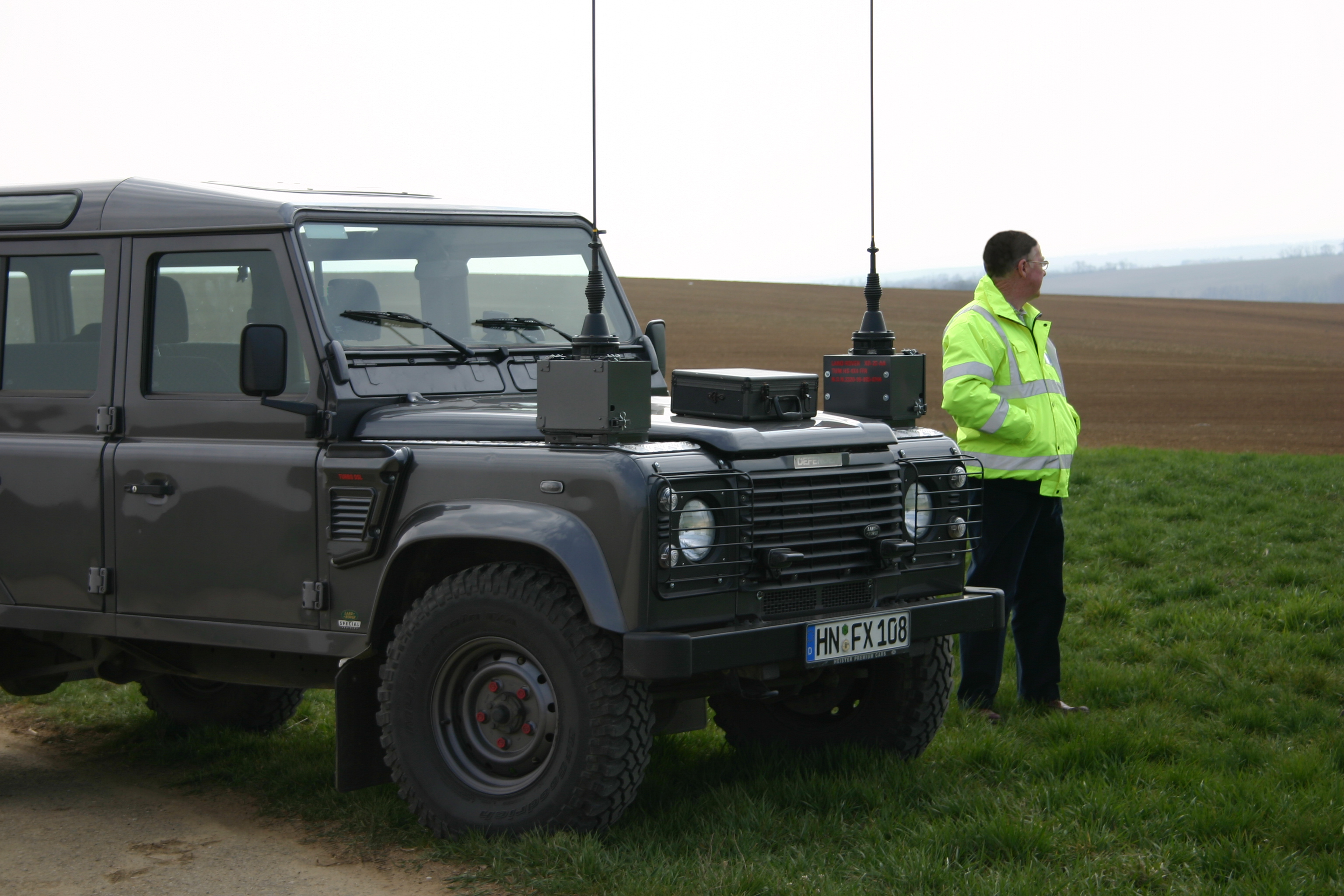 I am the author I took this picture back in 2003